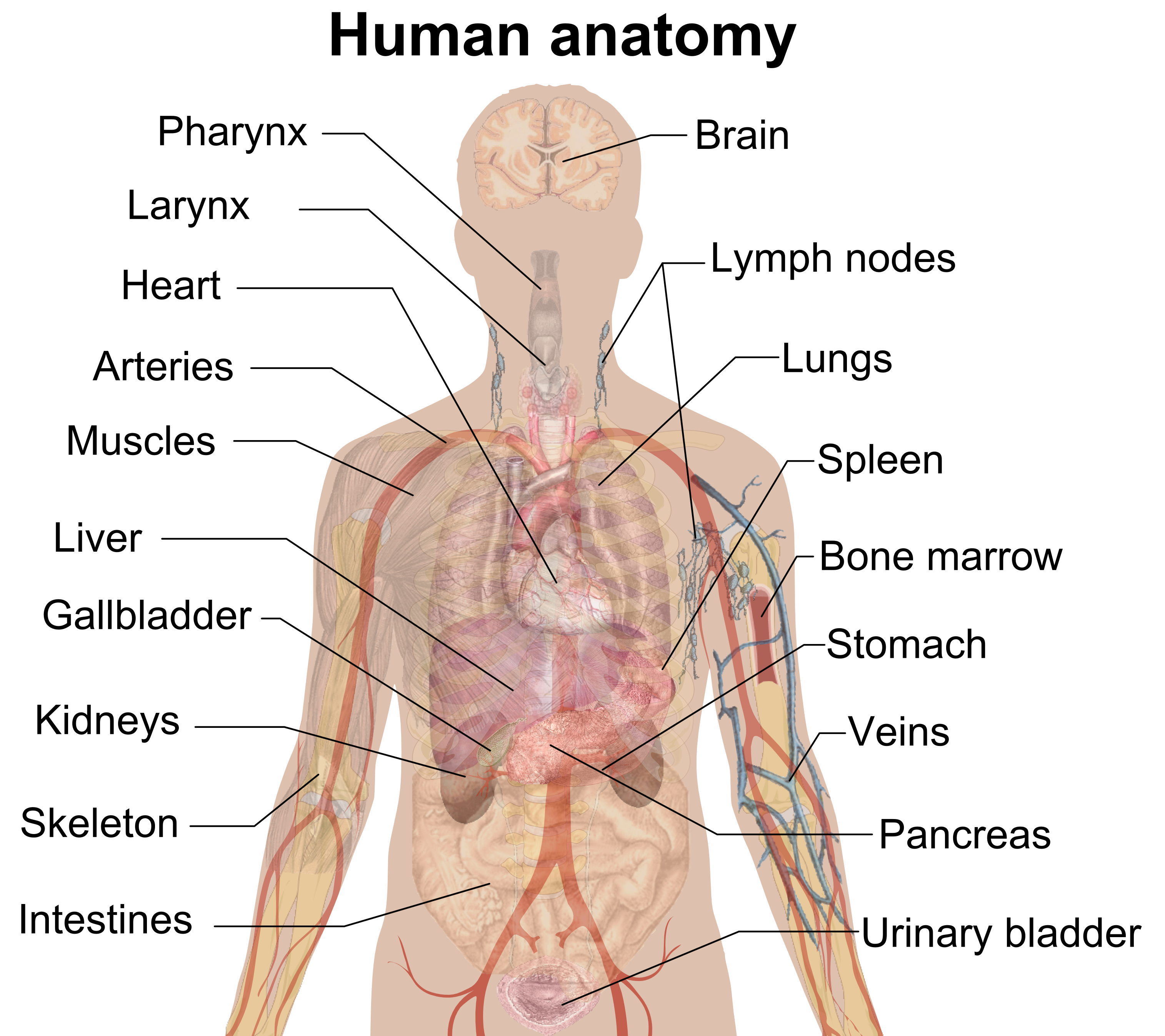 Selection of organs in human anatomy. To discuss image, please see Talk:Human body diagrams